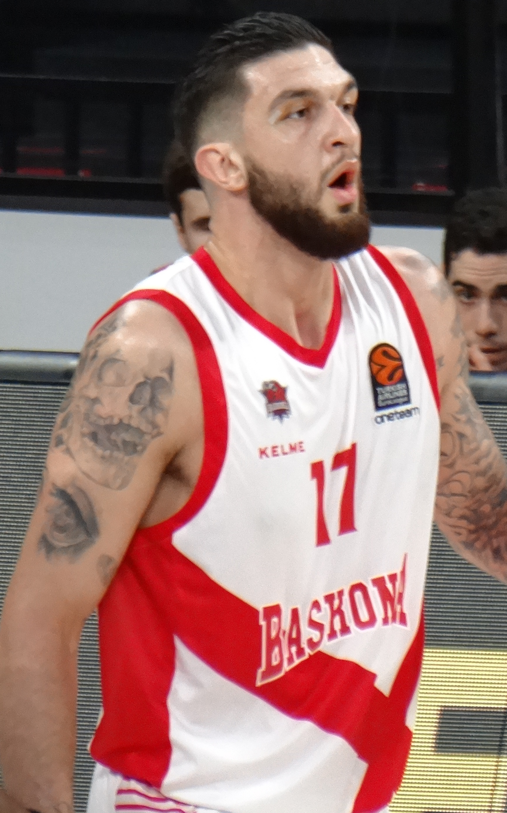 Vincent Poirier 17 - Saski Baskonia 20171215